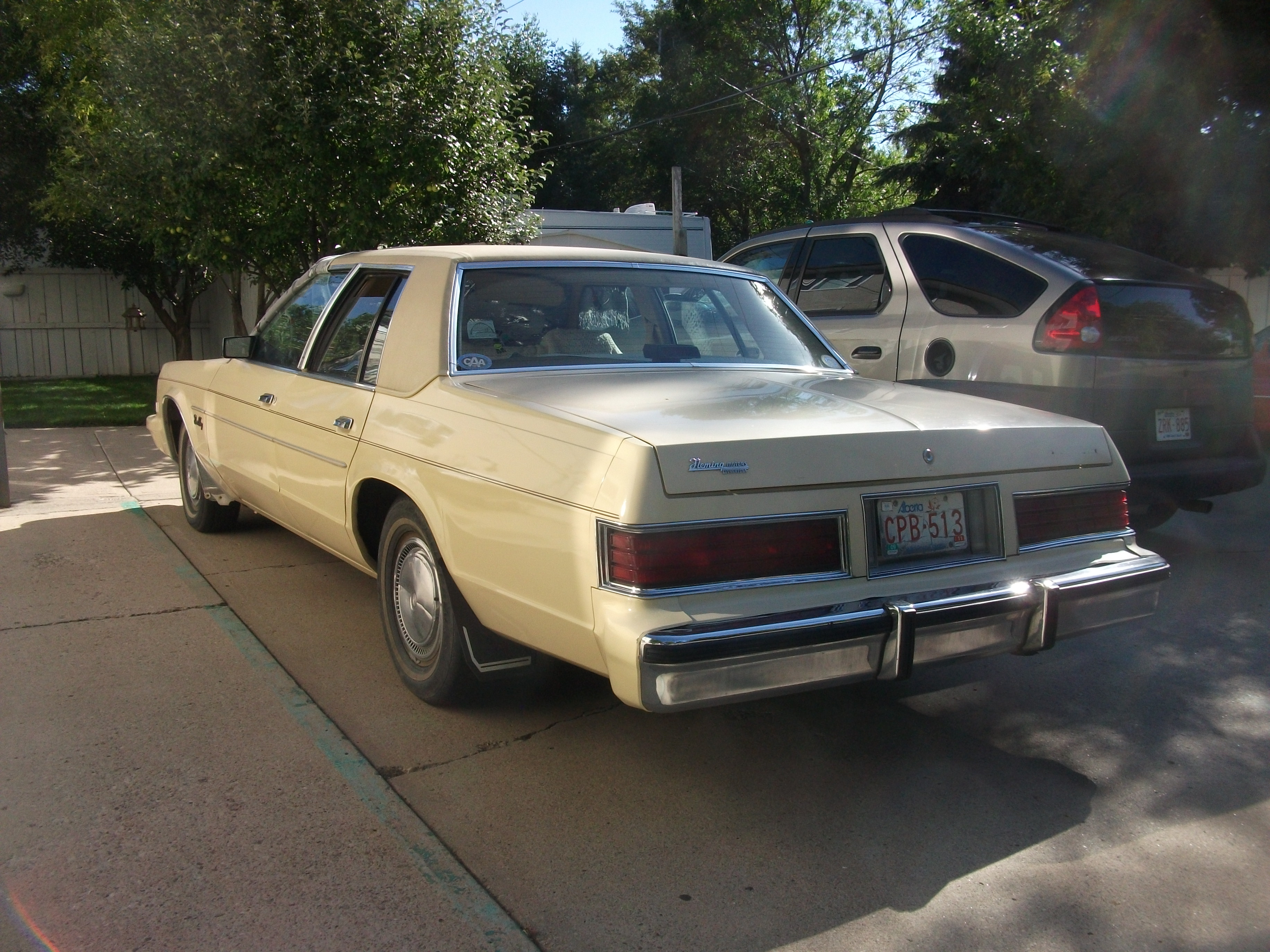 Plymouth Grand Fury - a cut rate R-body offered in 1980 or 1981. Not many left as most where sold to fleet buyers.